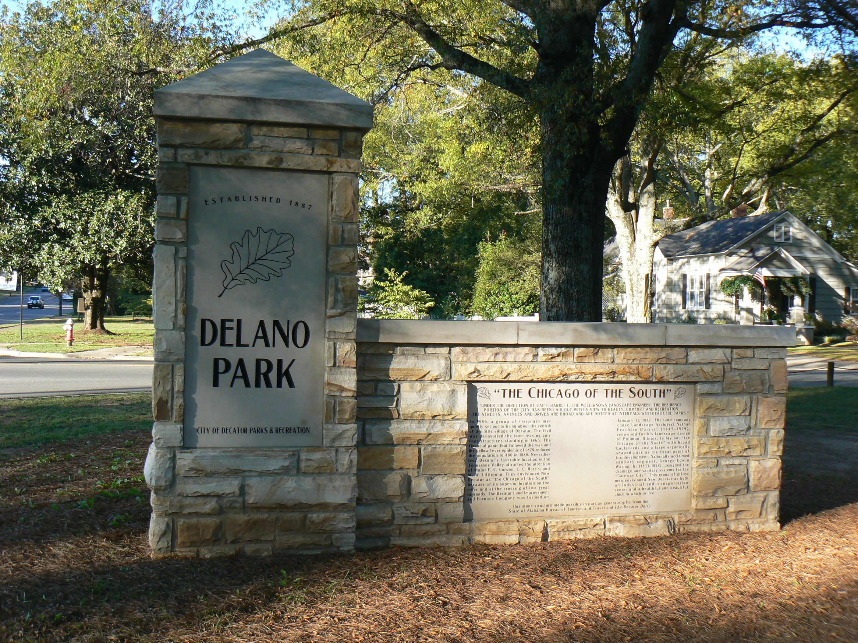 Self taken picture of stone Delano sign in Decatur, Alabama.